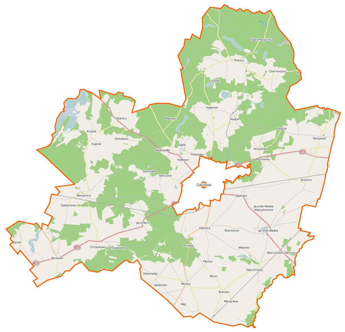 Map of Gmina Człuchów, Poland This map of Człuchów (gmina wiejska) was created from OpenStreetMap project data, collected by the community. This map may be incomplete, and may contain errors. Don't rely solely on it for navigation.